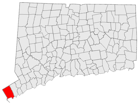 Locator map of the city of Greenwich — in southwestern Connecticut. Credits I made this.